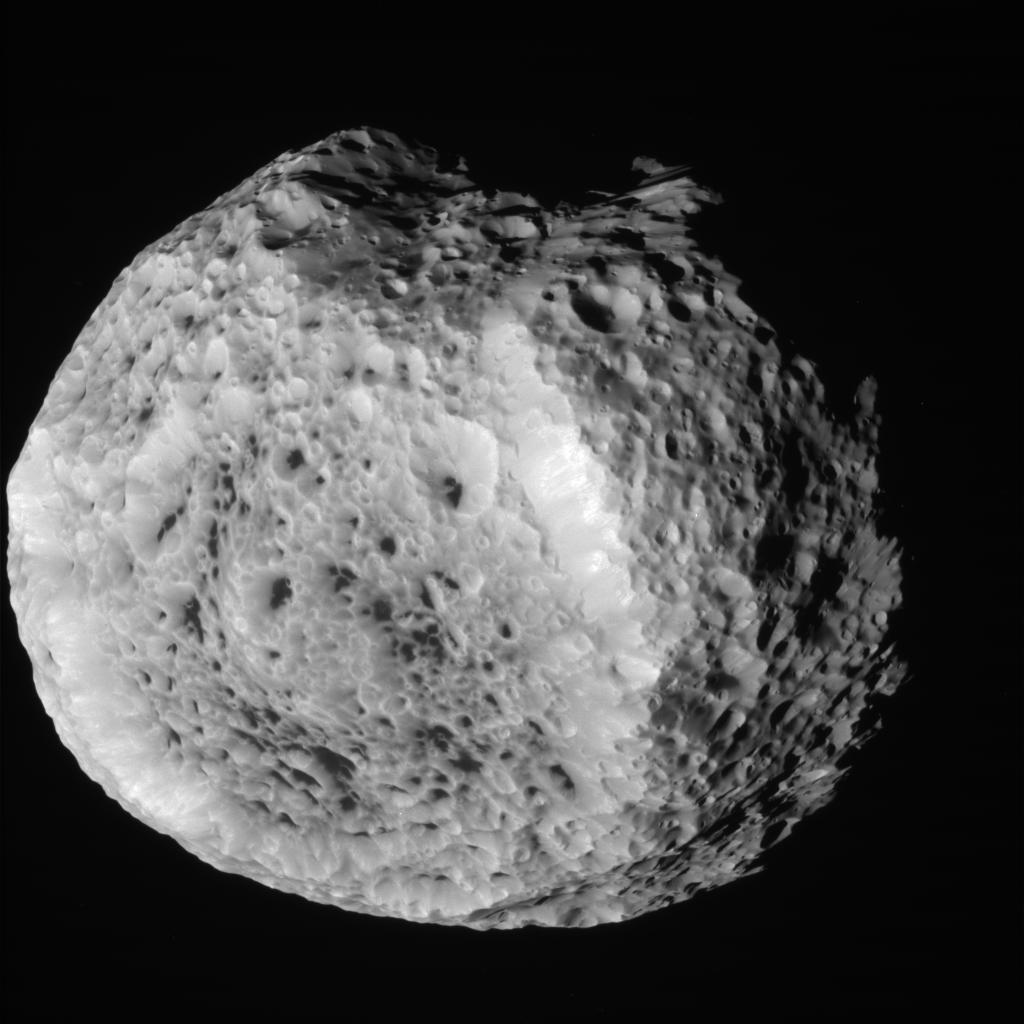 Hyperion view from Cassini